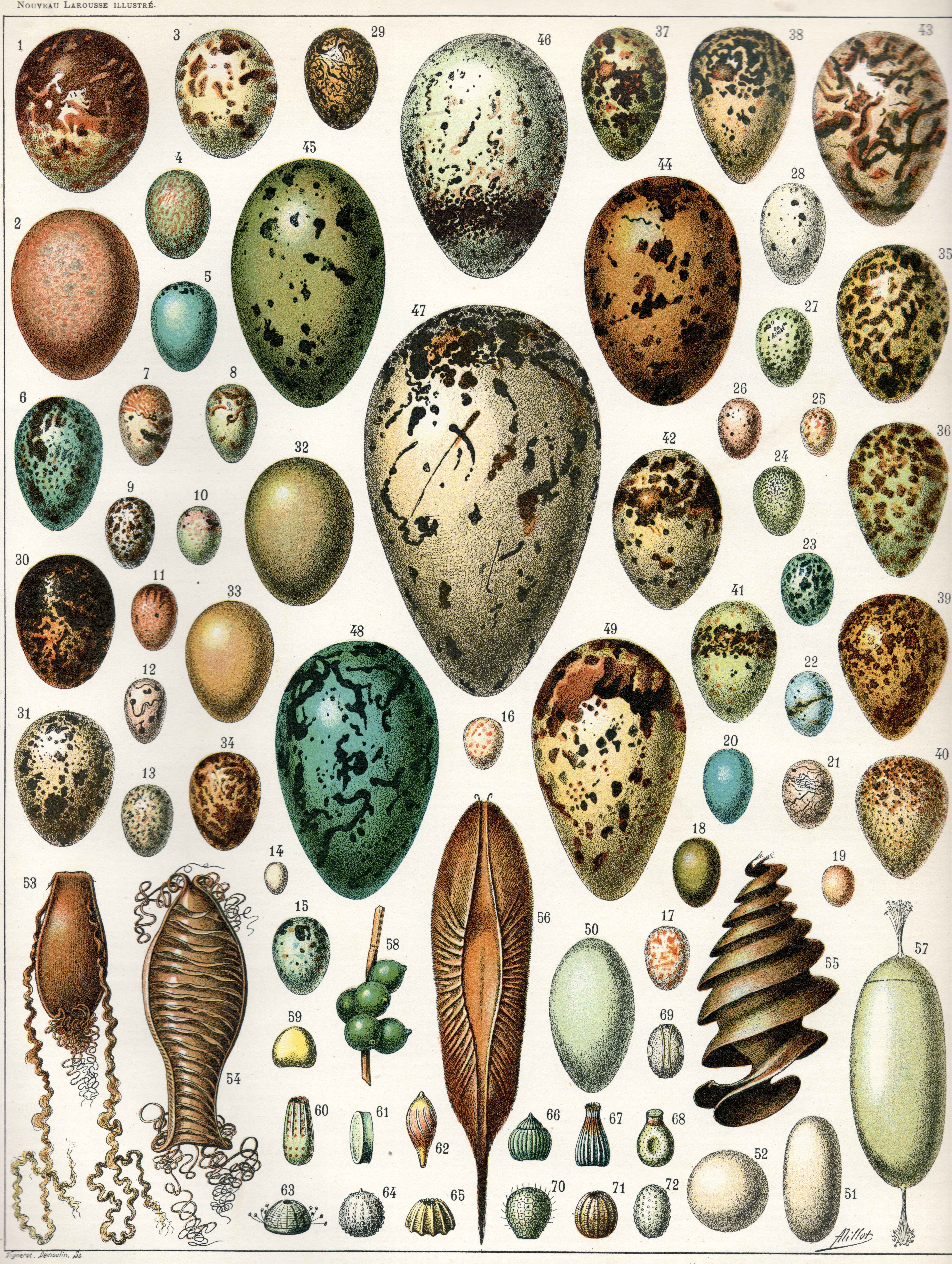 "ŒUFS" (Eggs), illustration by Adolphe Millot from Nouveau Larousse Illustré [1897-1904]. See key below for details.